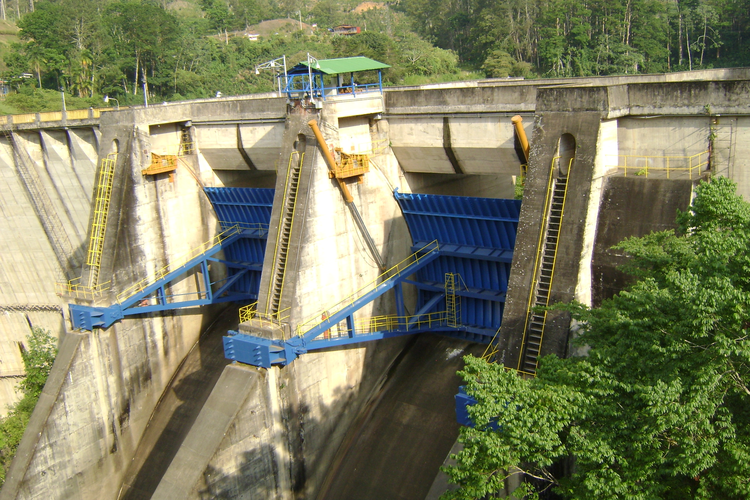 Cachi Hydroelectric Plant, Cachi, Province of Cartago, Costa Rica, Property of Instituto Costarricence de Electricidad for hydroelectric energy originated